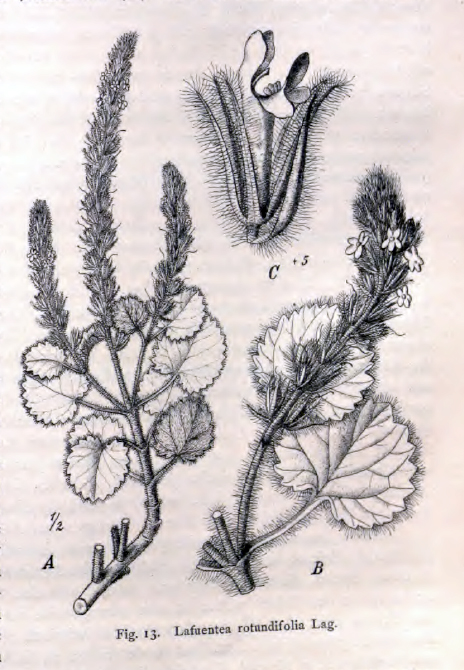 Plate illustrating Lafuentea rotundifolia